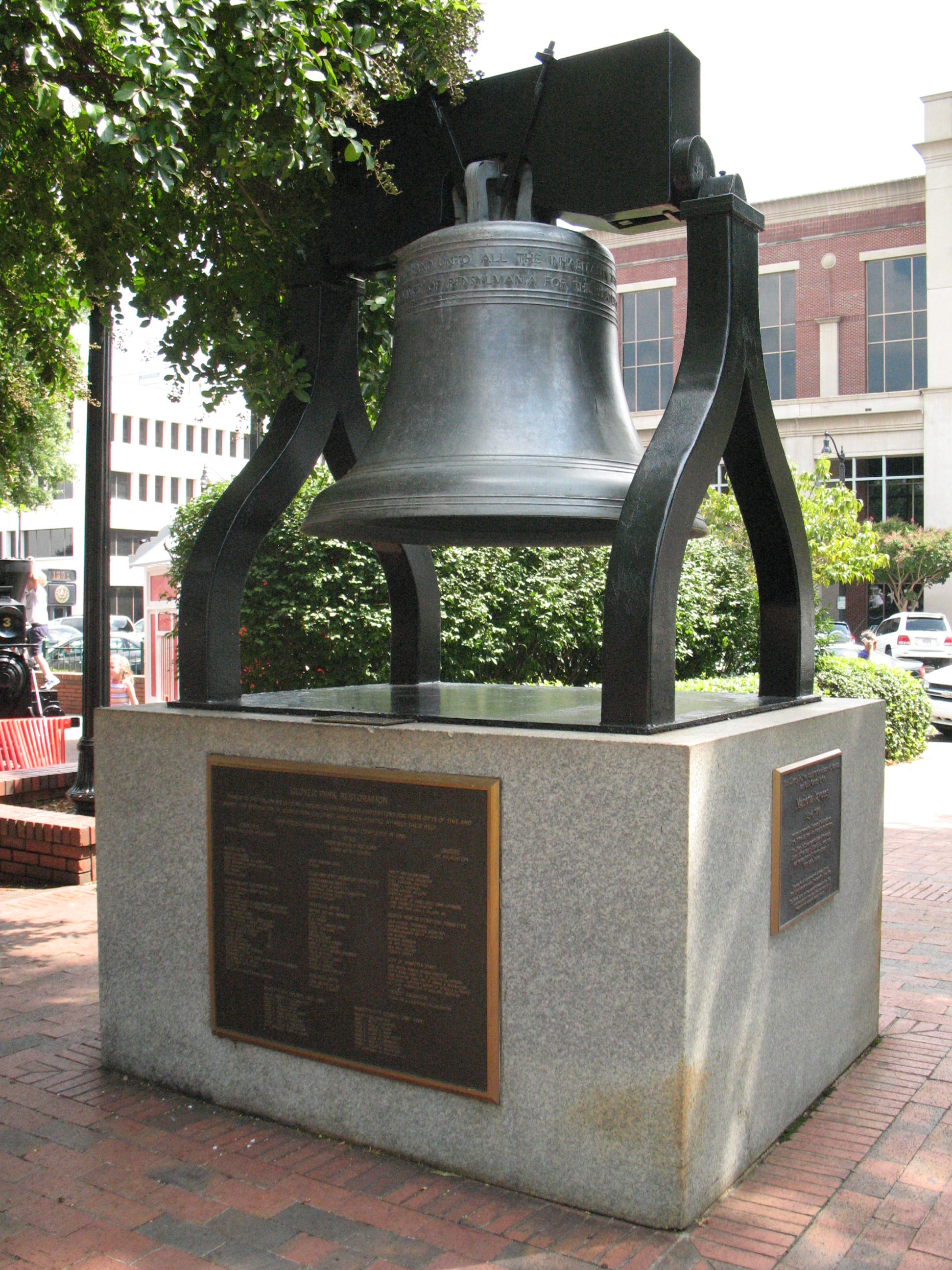 I, Kevin Kinnet, took this picture on Saturday, August 28, 2010, at Marietta Square (Glover Park) in Marietta, GA